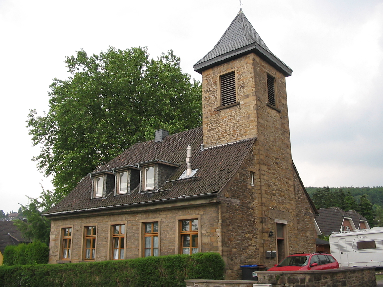 former protestant church Evangelisches Gemeindehaus in Witten-Rüdinghausen